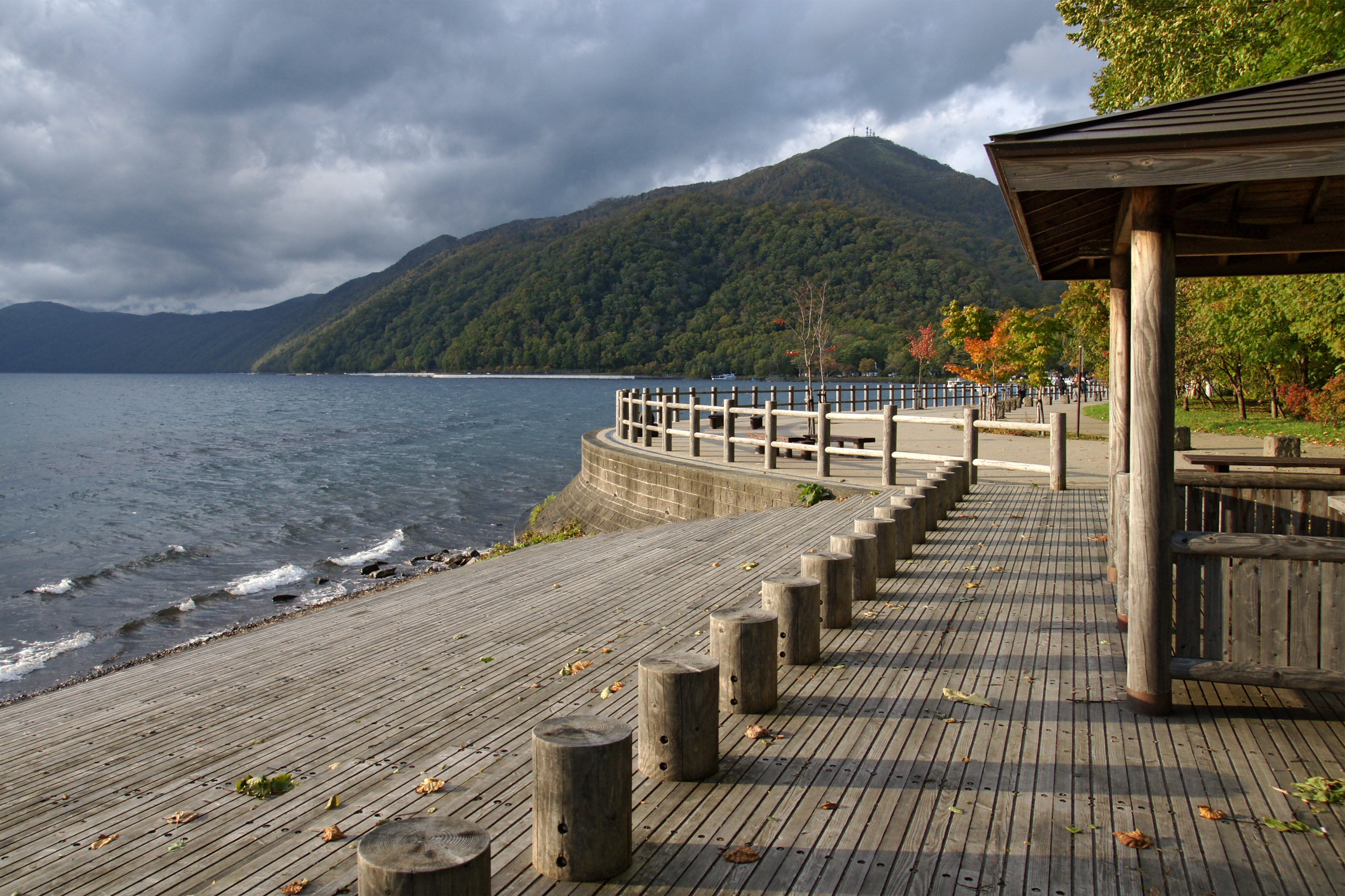 Mt. Monbetsu-dake view from Lake Shikotsu, Chitose, Hokkaido prefecture, Japan